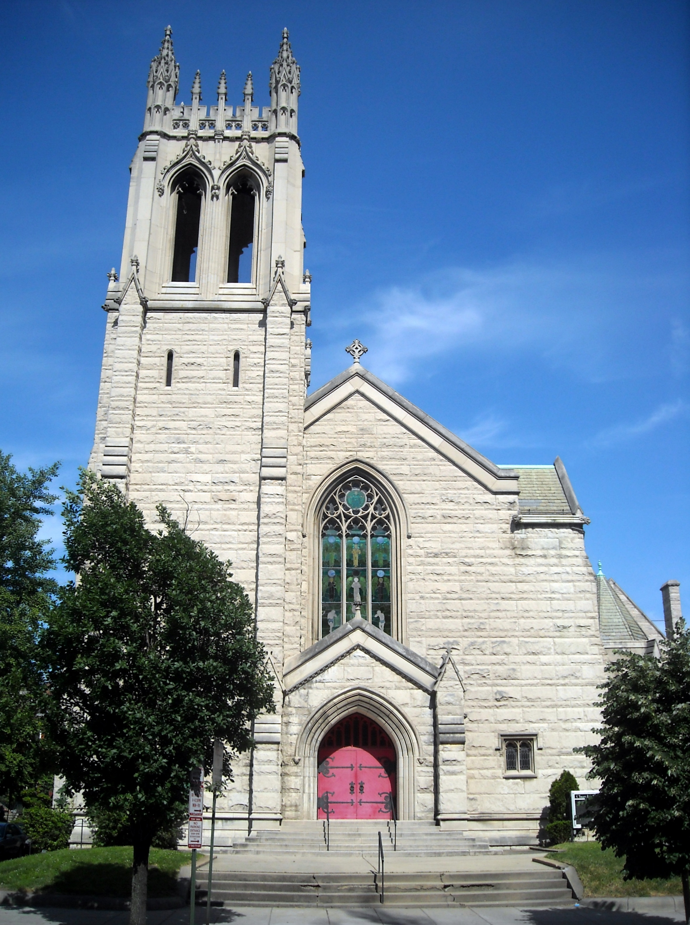 Church of the Holy City, affiliated with the Swedenborgian Church of North America, located at 1611 16th Street NW in the Dupont Circle neighborhood of Washington, D.C. The Gothic Revival church was designed by architect Paul J. Pelz and built in 1896. The building is a contributing property to the Sixteenth Street Historic District.